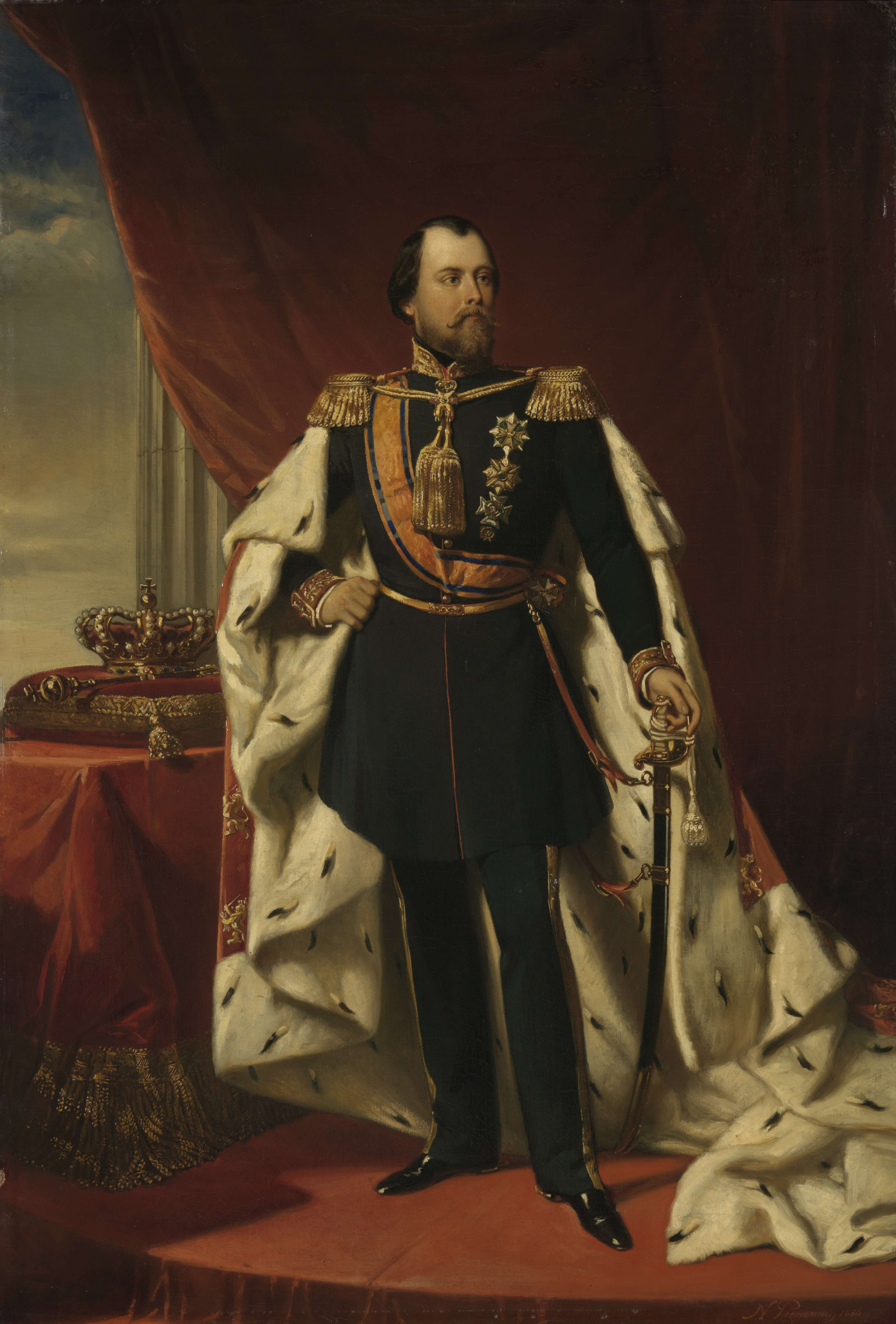 Portrait of William III (1817-90), King of the Netherlands. Standing, full-length cloak, in uniform with ermine. The right hand on his side, the left hand on the sword. To the left lying on a cushion on a table - crown and scepter. There is a second painting by Pieneman that looks very similar to this one.